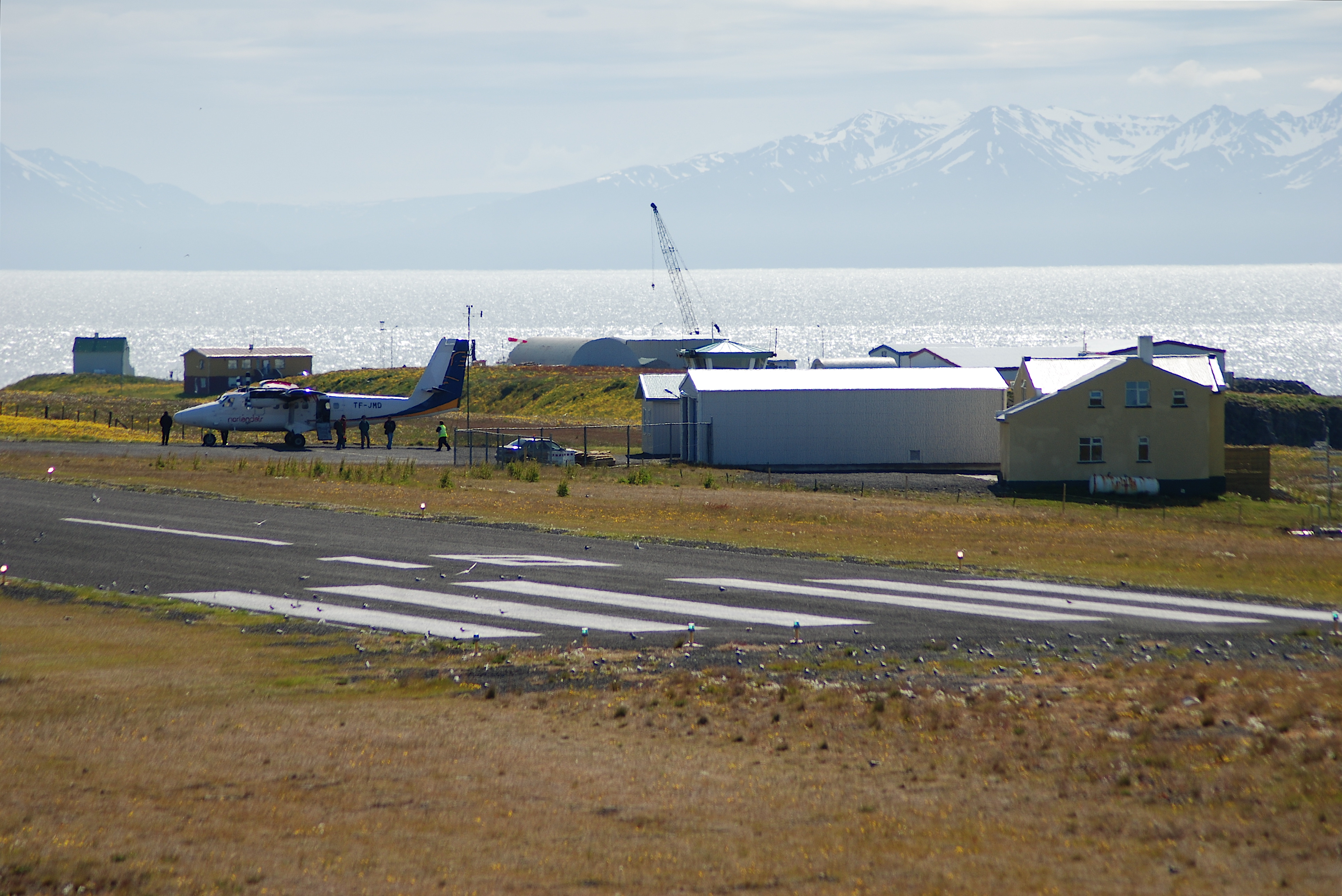 Grimsey Airport